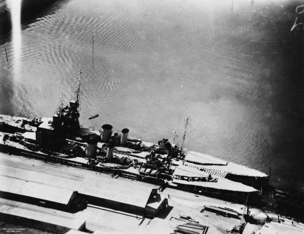 Light cruiser Dauntless and Dragon.